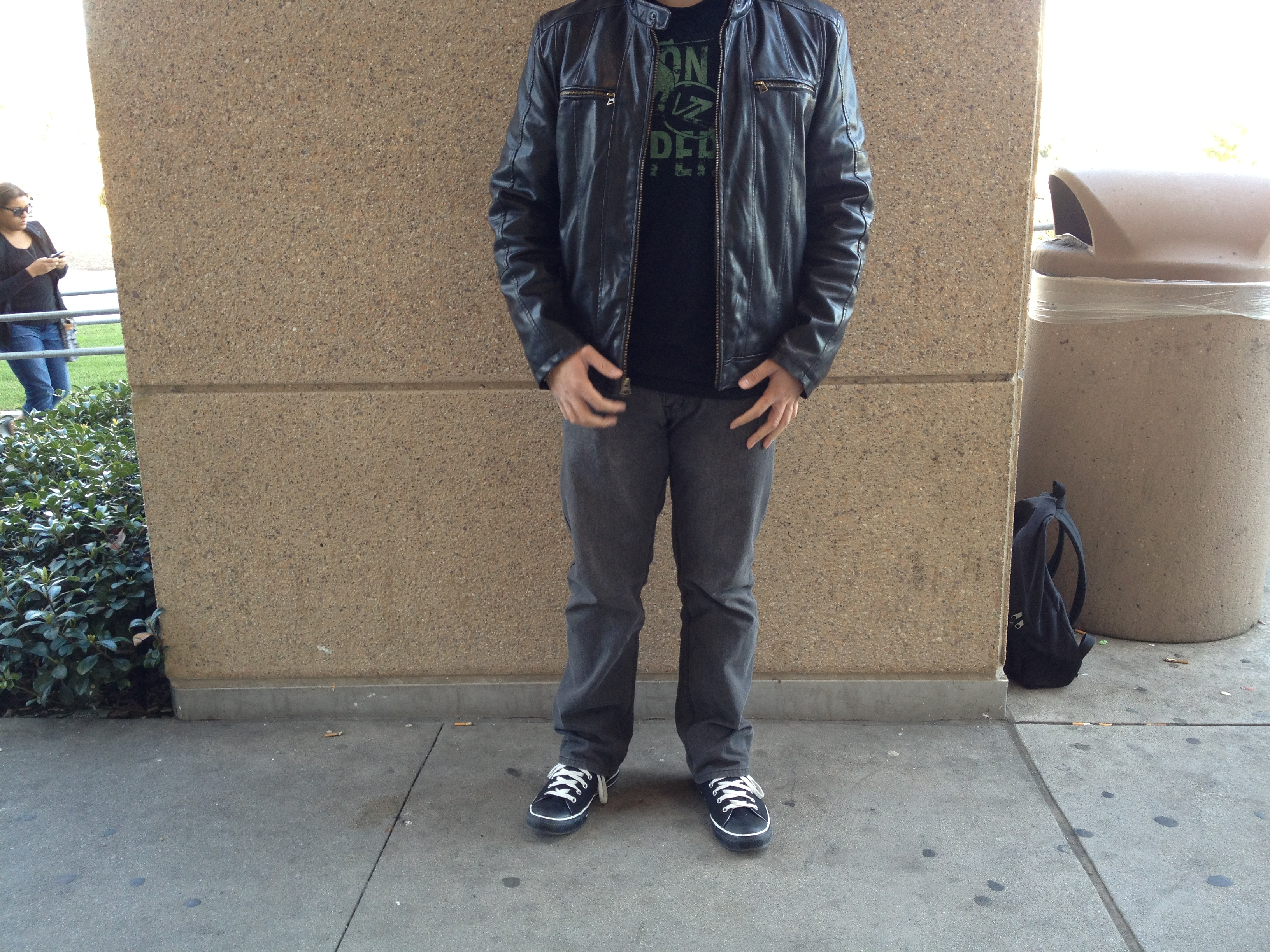 The picture shows neutral position.